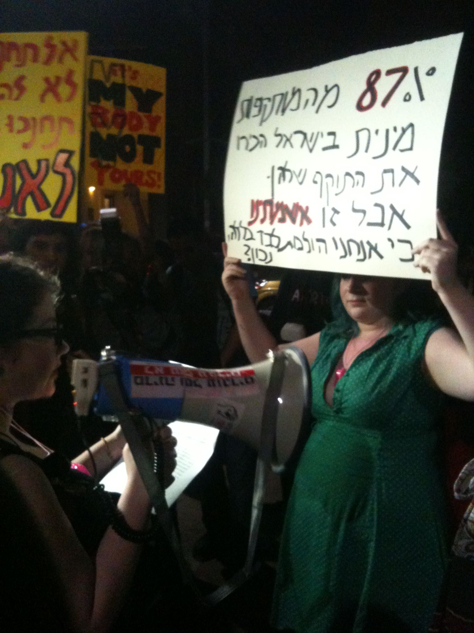 Protesters During SlutWalk in Tel Aviv